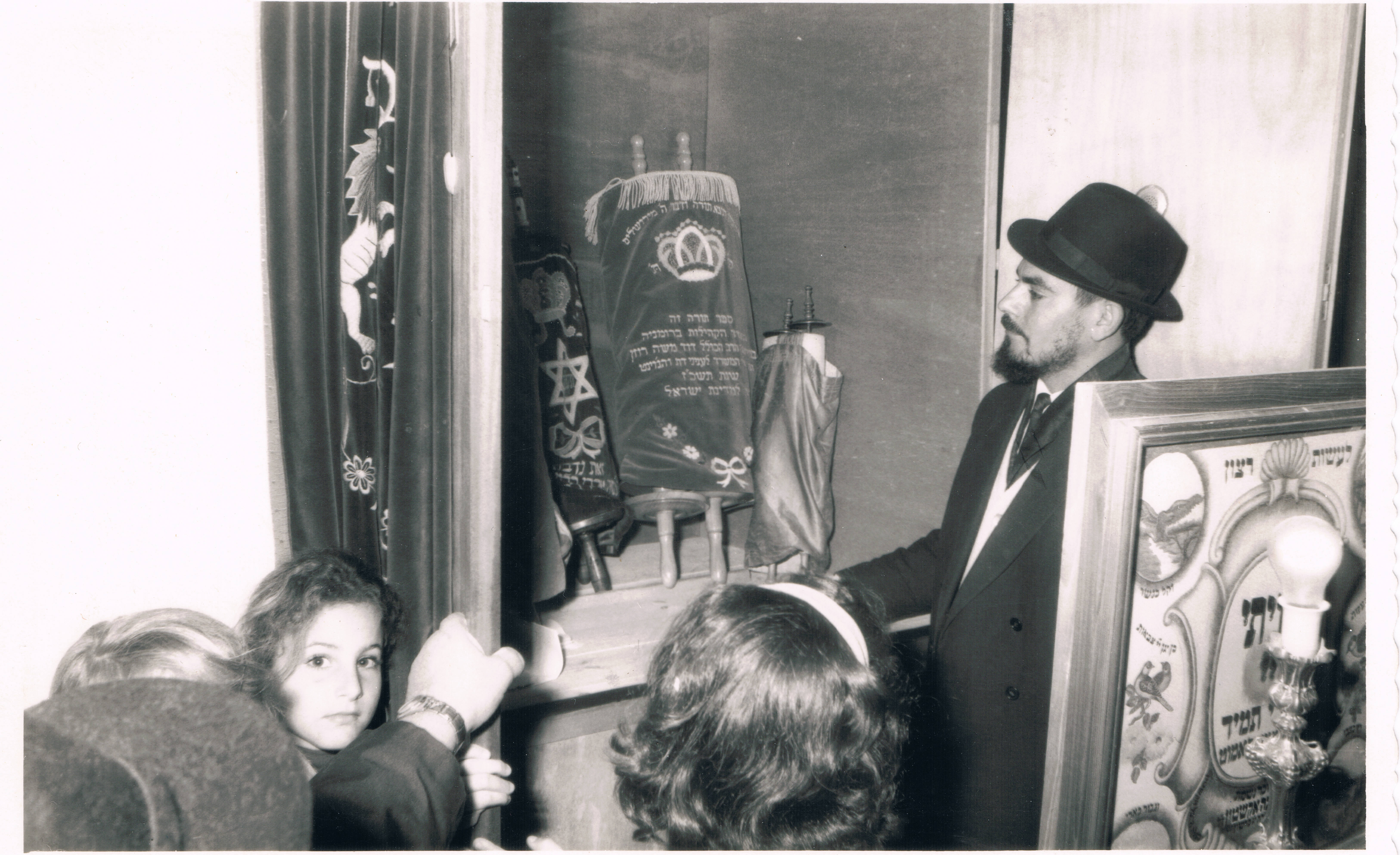 Bringing the Sefer Torah to the Synagogue in Givat Nesher In the year 1970